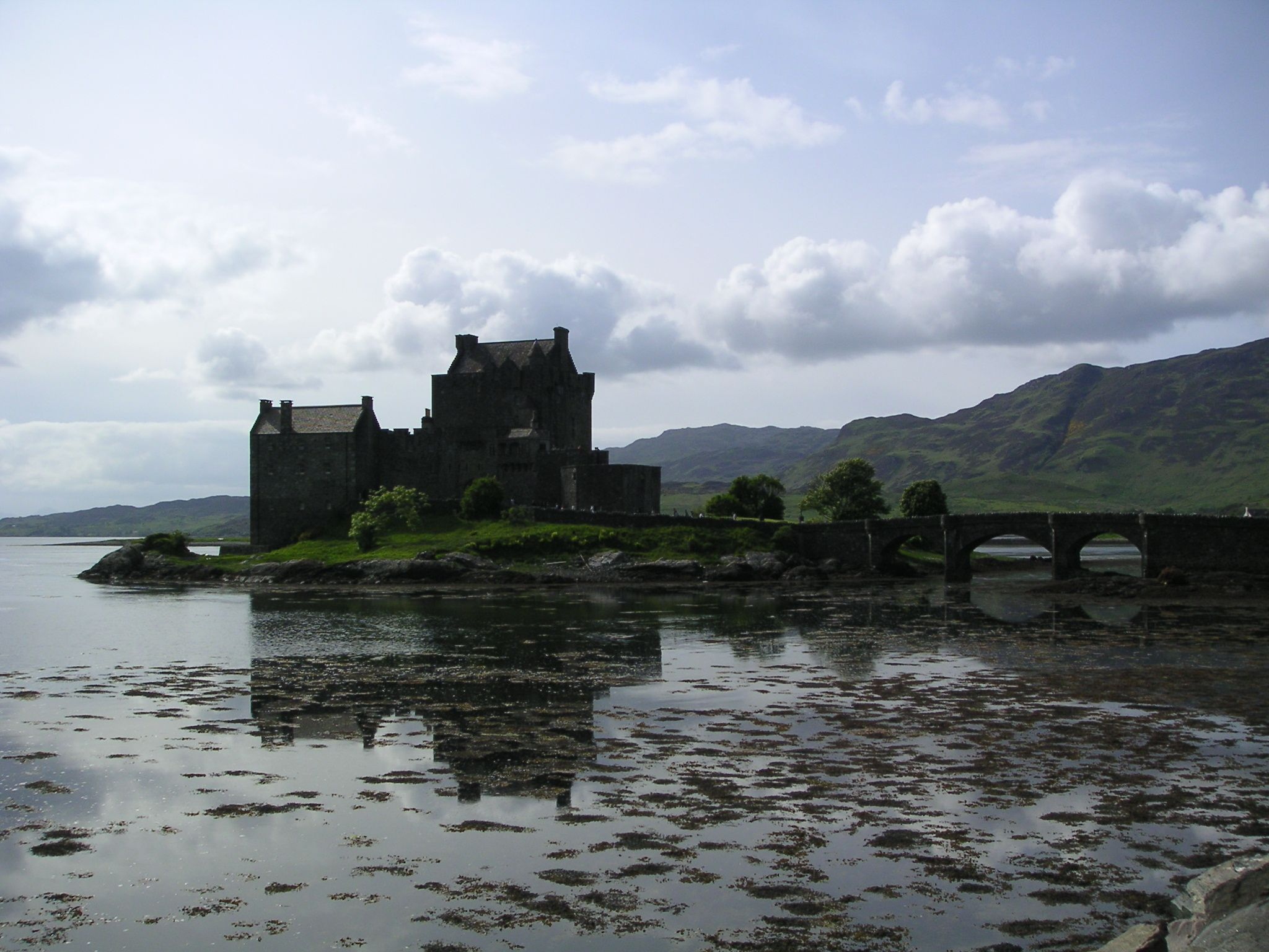 Eilean Donan Castle, Dornie, Scotland